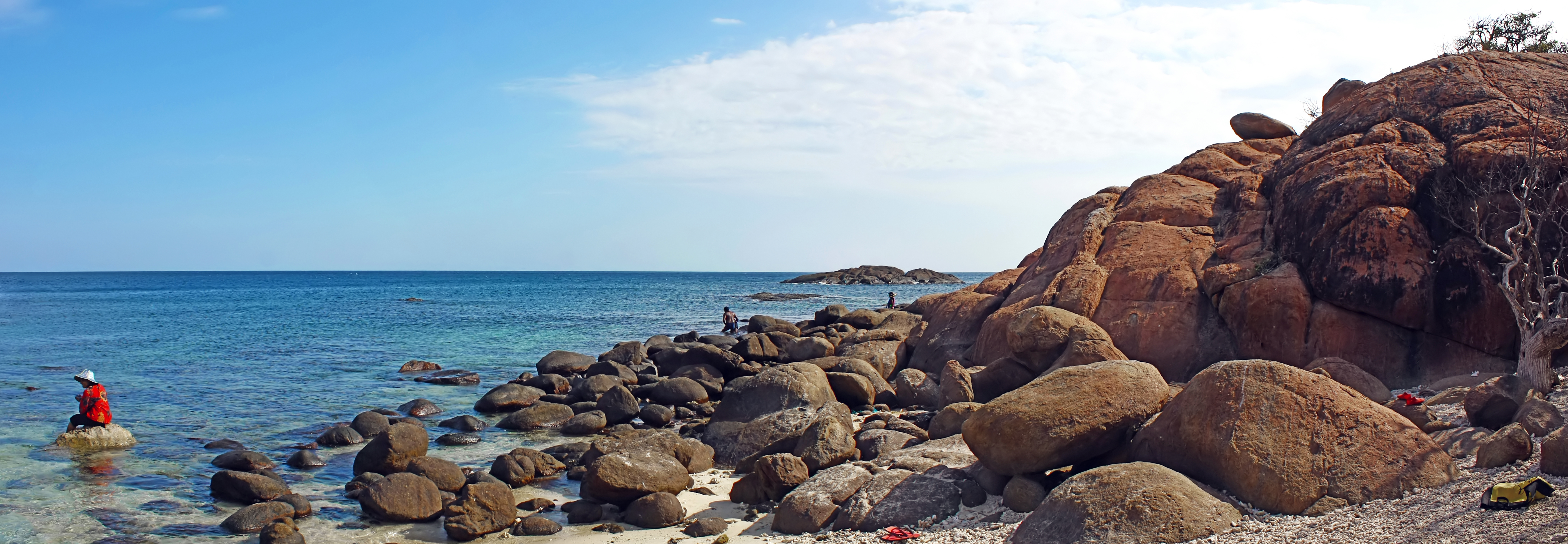 Pigeon Island National Park, Trincomalee, Sri Lanka. It is southeast part of the island.